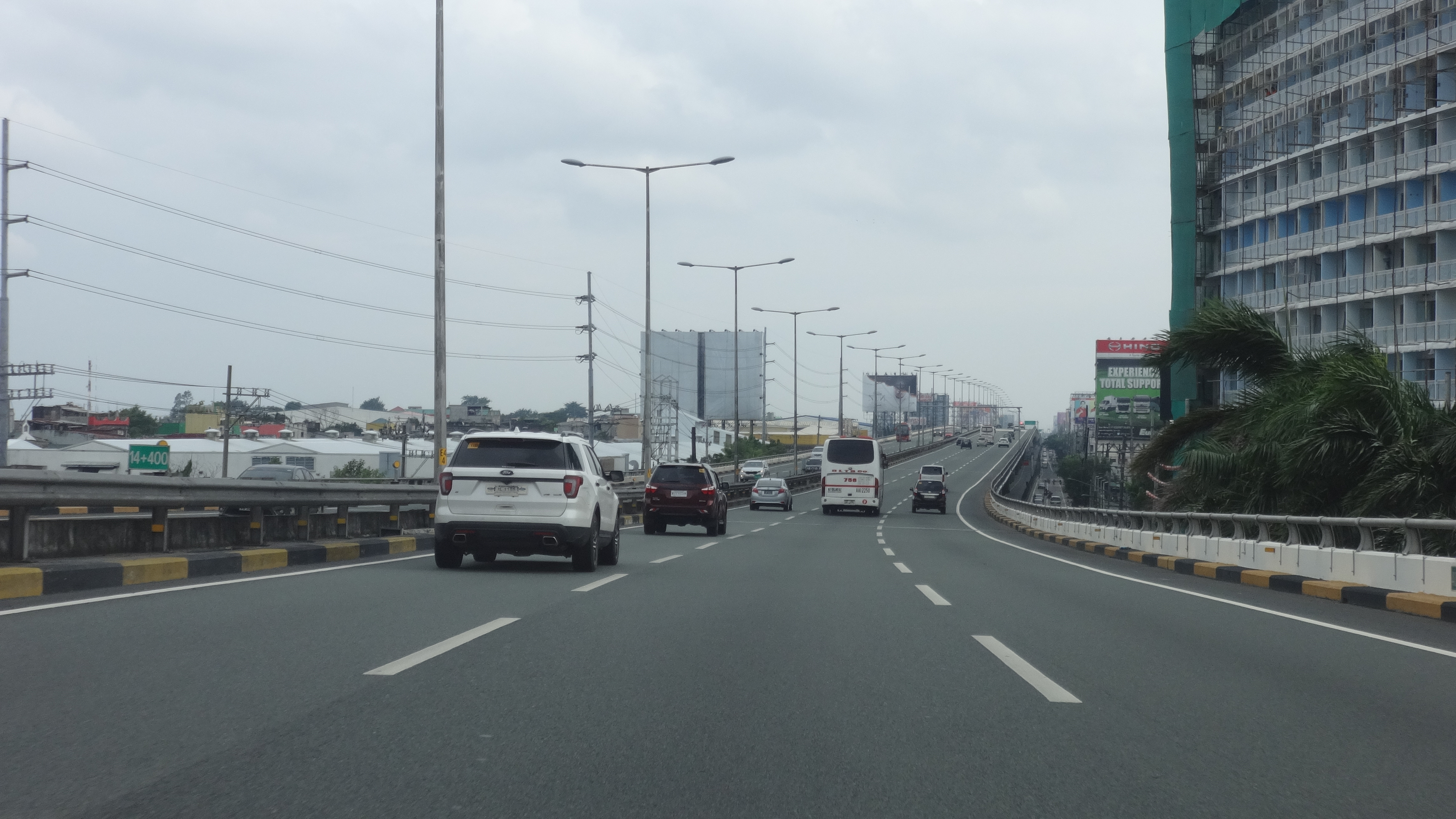 Bicutan section of Metro Manila Skyway along South Superhighway, Paranaque City